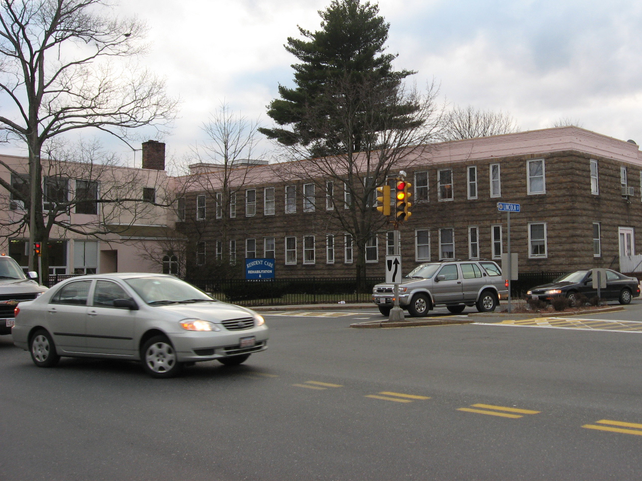 Red & yellow indication on a traffic signal at Lincoln St. & Concord St. in Framingham, Massachusetts. The indication of red & yellow at the same time allows pedestrians to cross. Note the two-head unit on the very left, which is a crosswalk-only signal. See Traffic light signalling and operation.